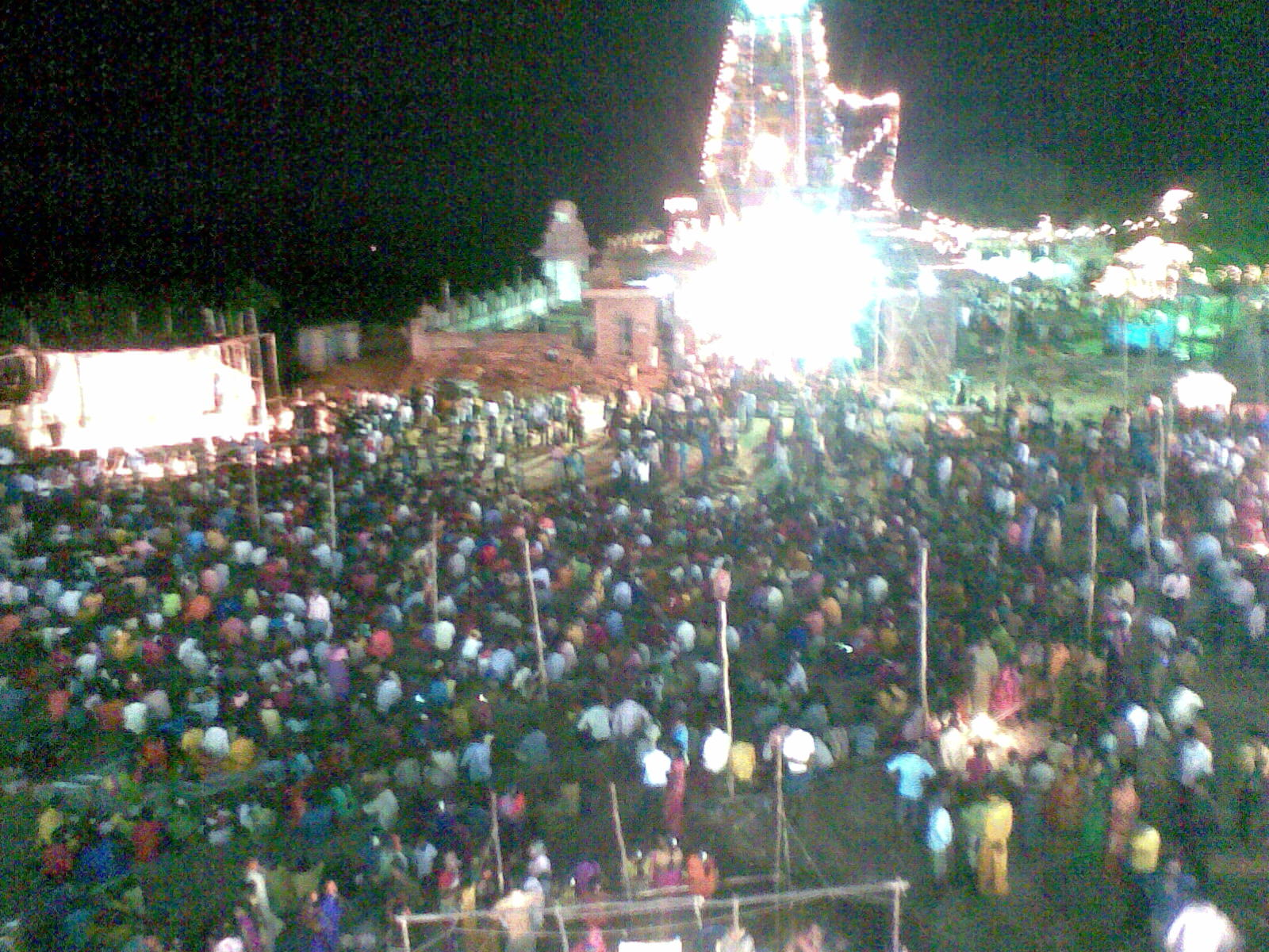 Ramathirtham Nellore